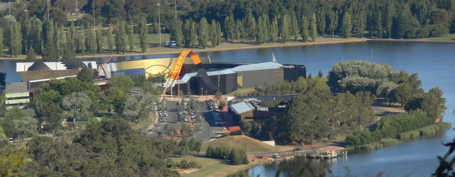 Australian National Museum and AIATSIS building on Acton Peninsula, viewed from Black Mountain.